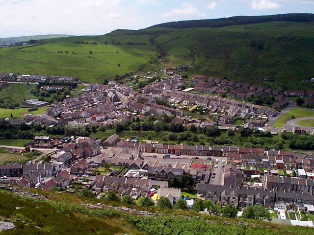 Mynydd Y Dinas to Penrhiwfer with Williamstown school at centre